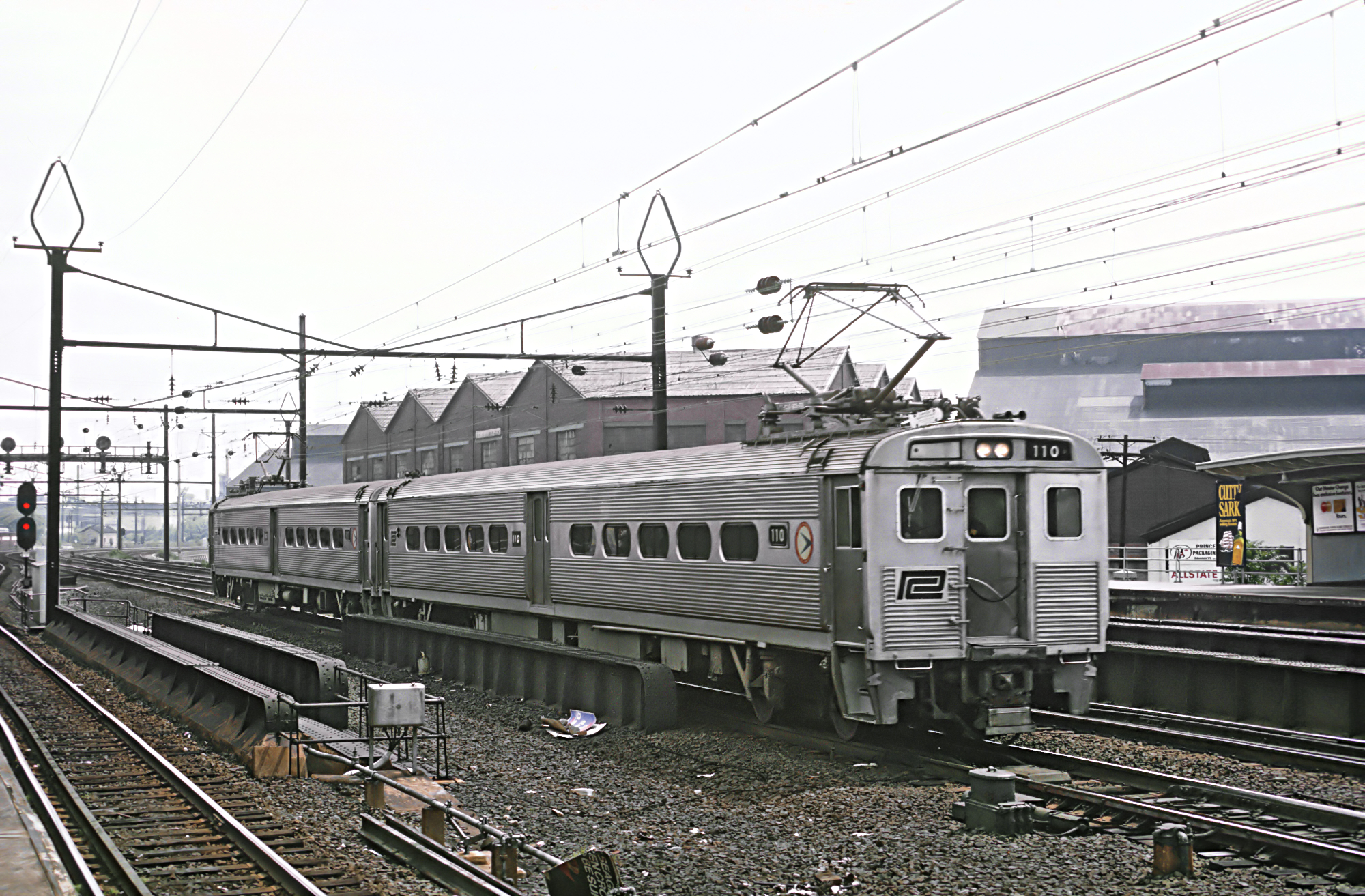 Jersey Arrow I #110 of Penn Central leads a commuter train through Harrison station in July 1969. #110 would later be converted to a Comet IB, which served as NJT 5161 and Amtrak 5004.